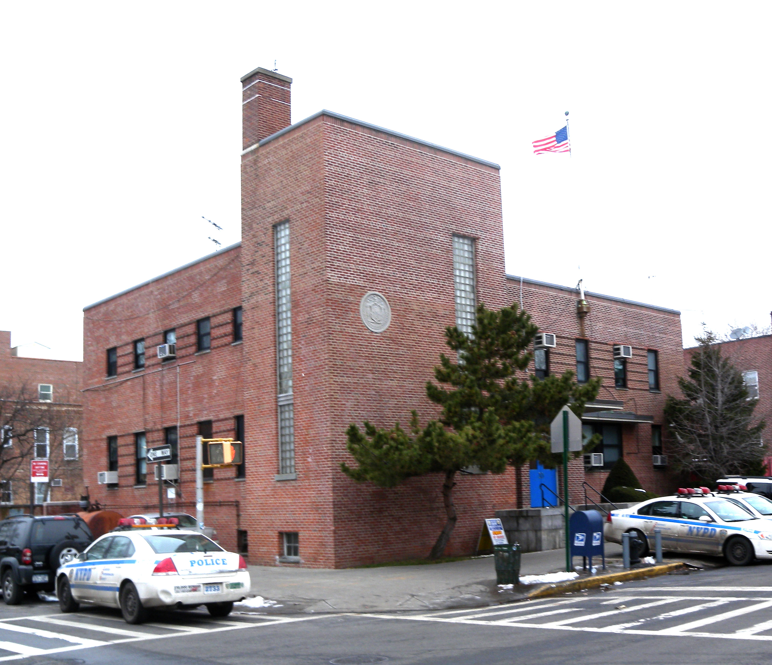 Looking north across 16th Avenue, 59th Street, and the Bay Ridge Branch, at 66th Precinct House on a cloudy afternoon.